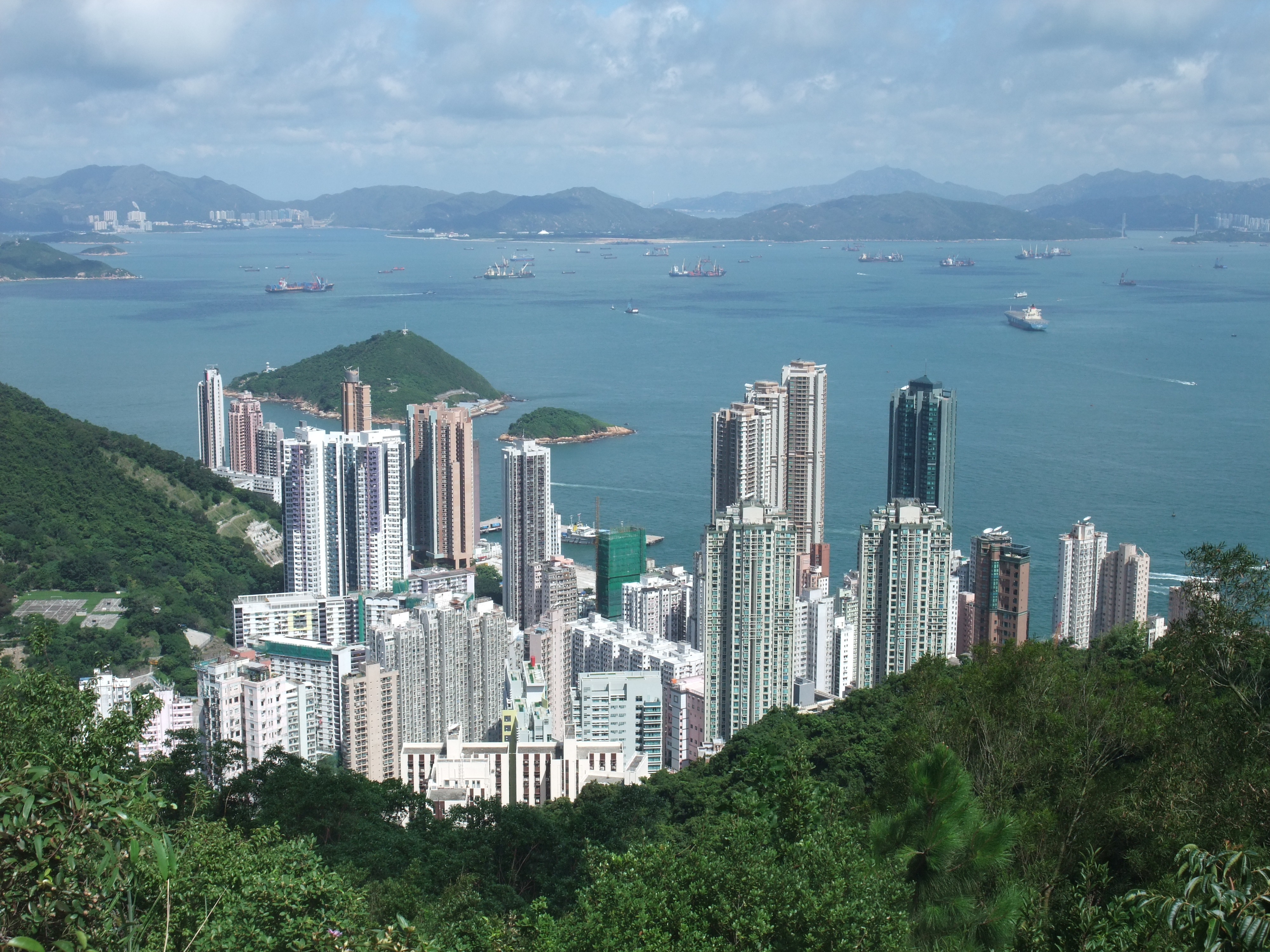 Photo of Kennedy Town